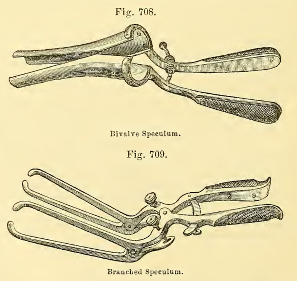 Two varieties of Speculum